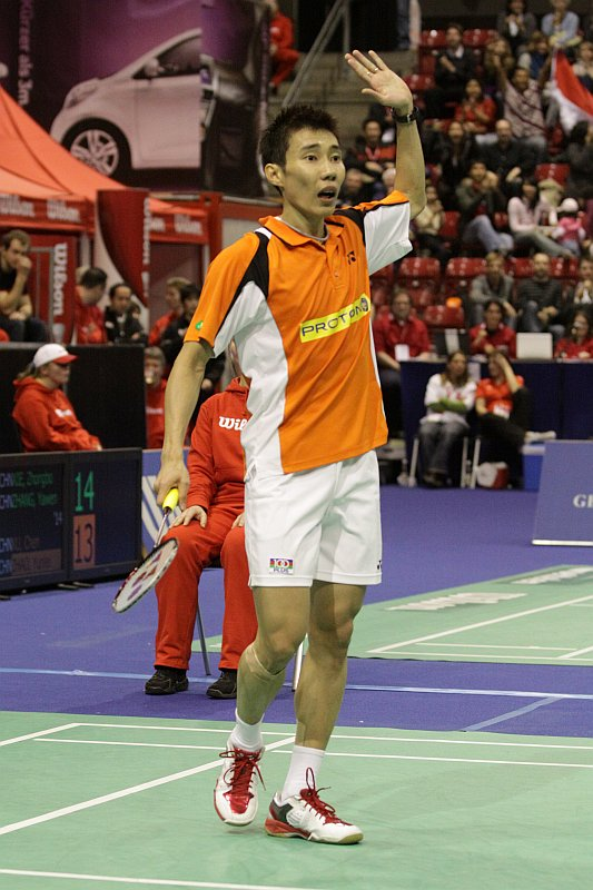 Lee Chong Wei